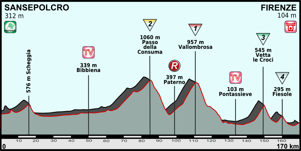 Giro d'Italia 2013 - stage profile # 09